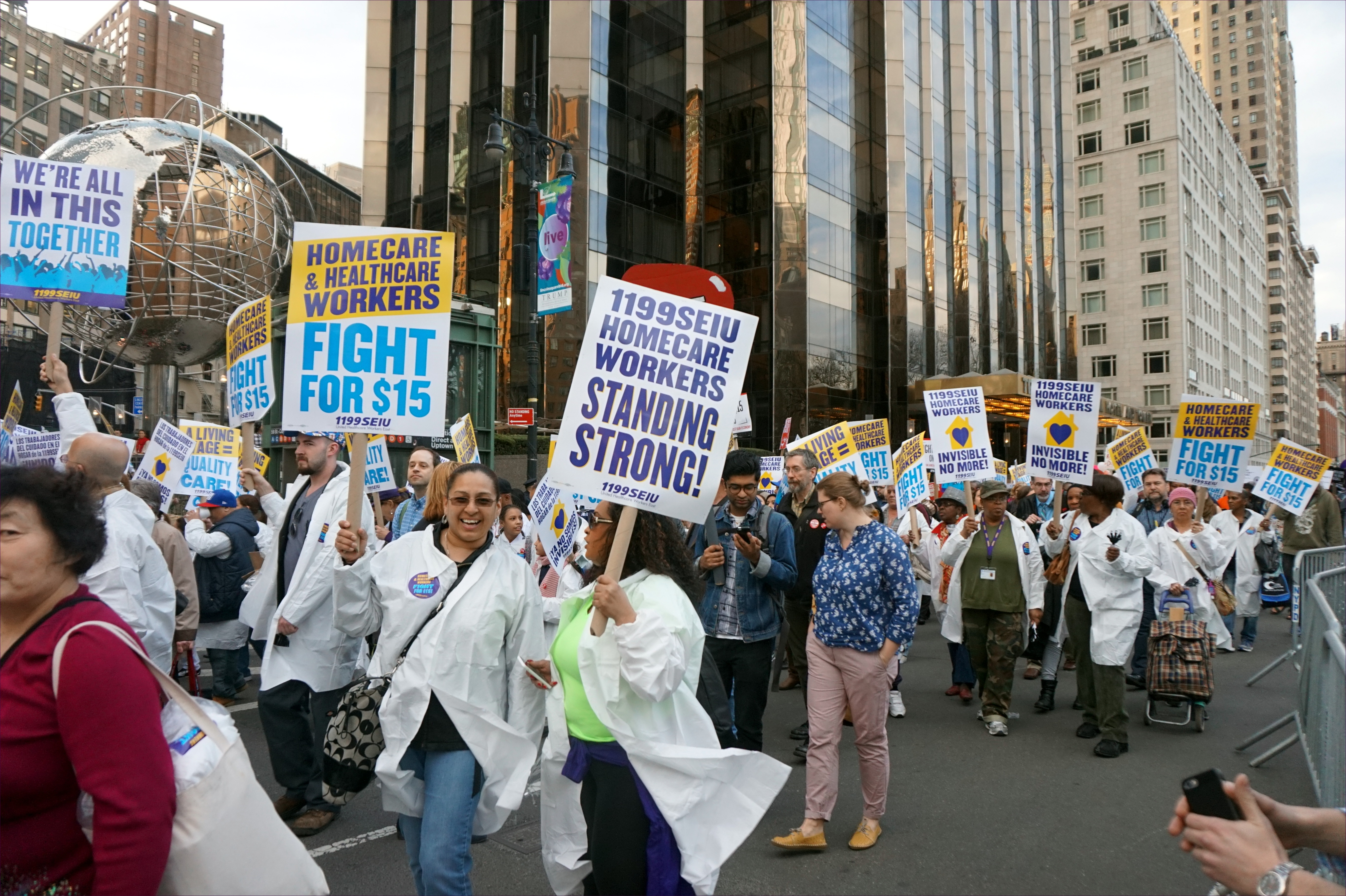 NYC Rally and March to raise the minimum wage in America.